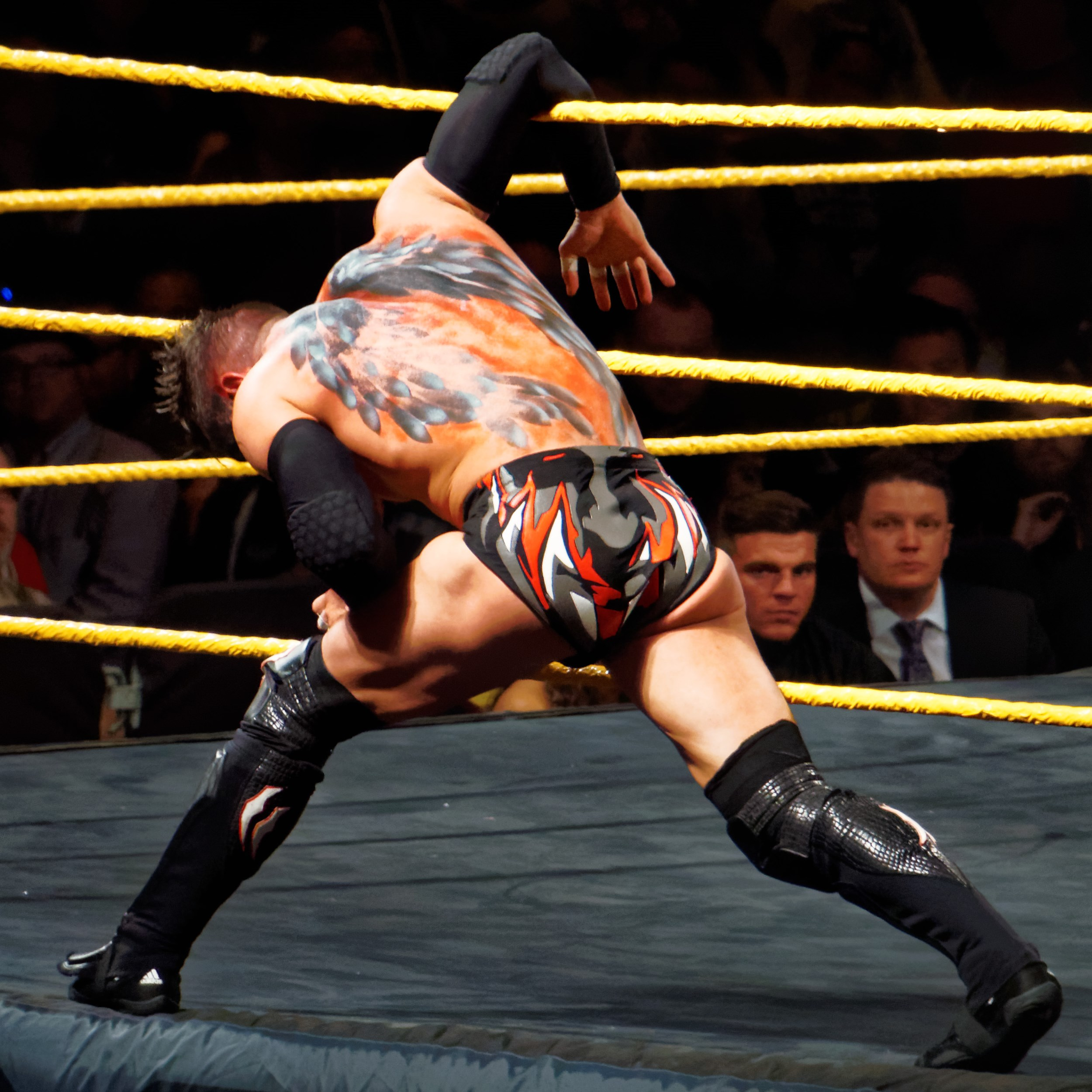 Finn Balor at an NXT event in San Jose, California in March 2015